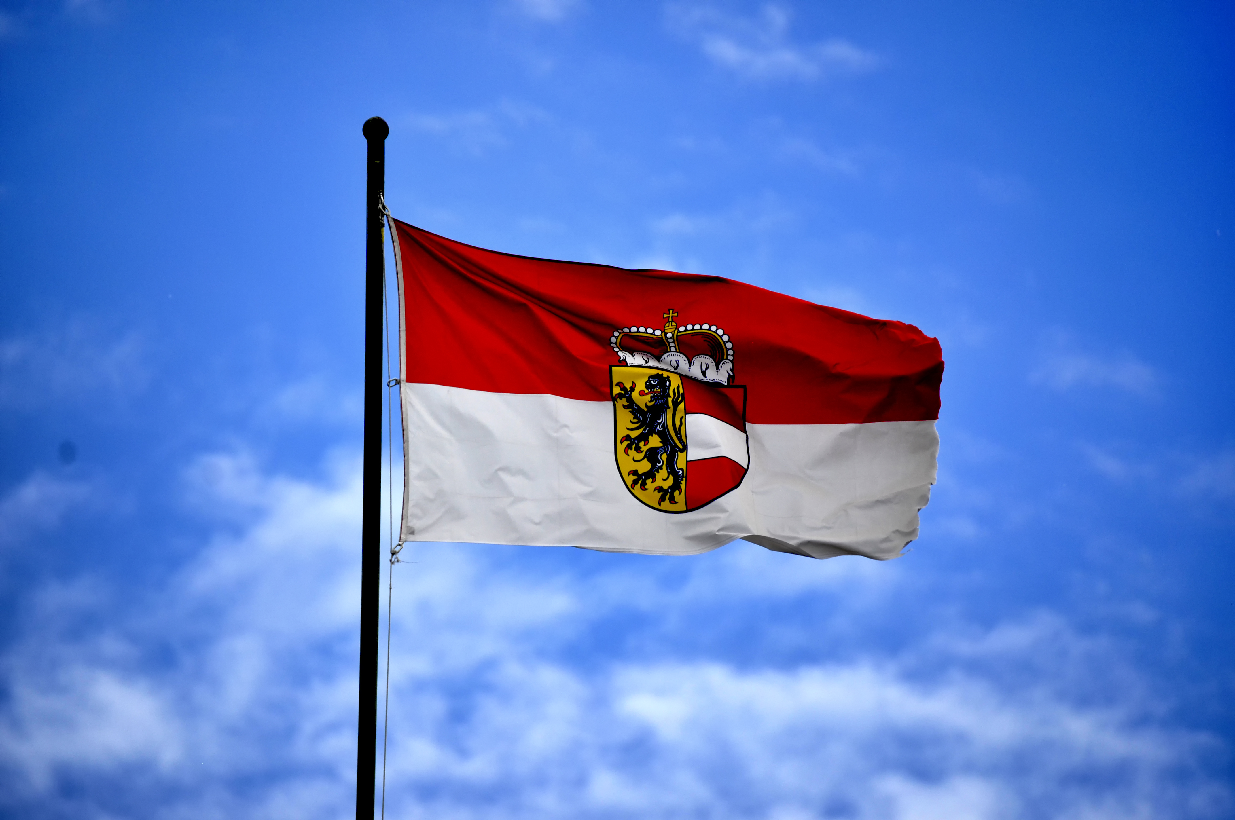 Fortress Hohensalzburg, Salzburg, Austria